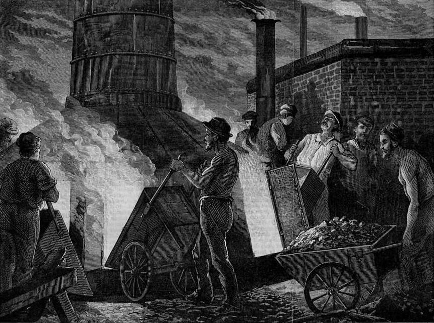 The Manufacture of Iron -- Filling the Furnace, a wood engraving drawn by Jules Tavernier and Paul Frénzeny, published in Harper's Weekly, November 1, 1873.